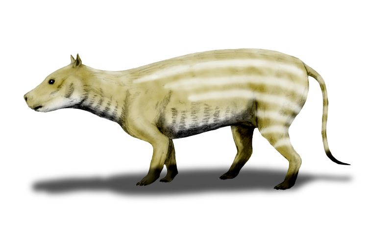 Merycoidodon culbertsoni, an oreodont from the Oligocene of North America, pencil drawing, digital coloring